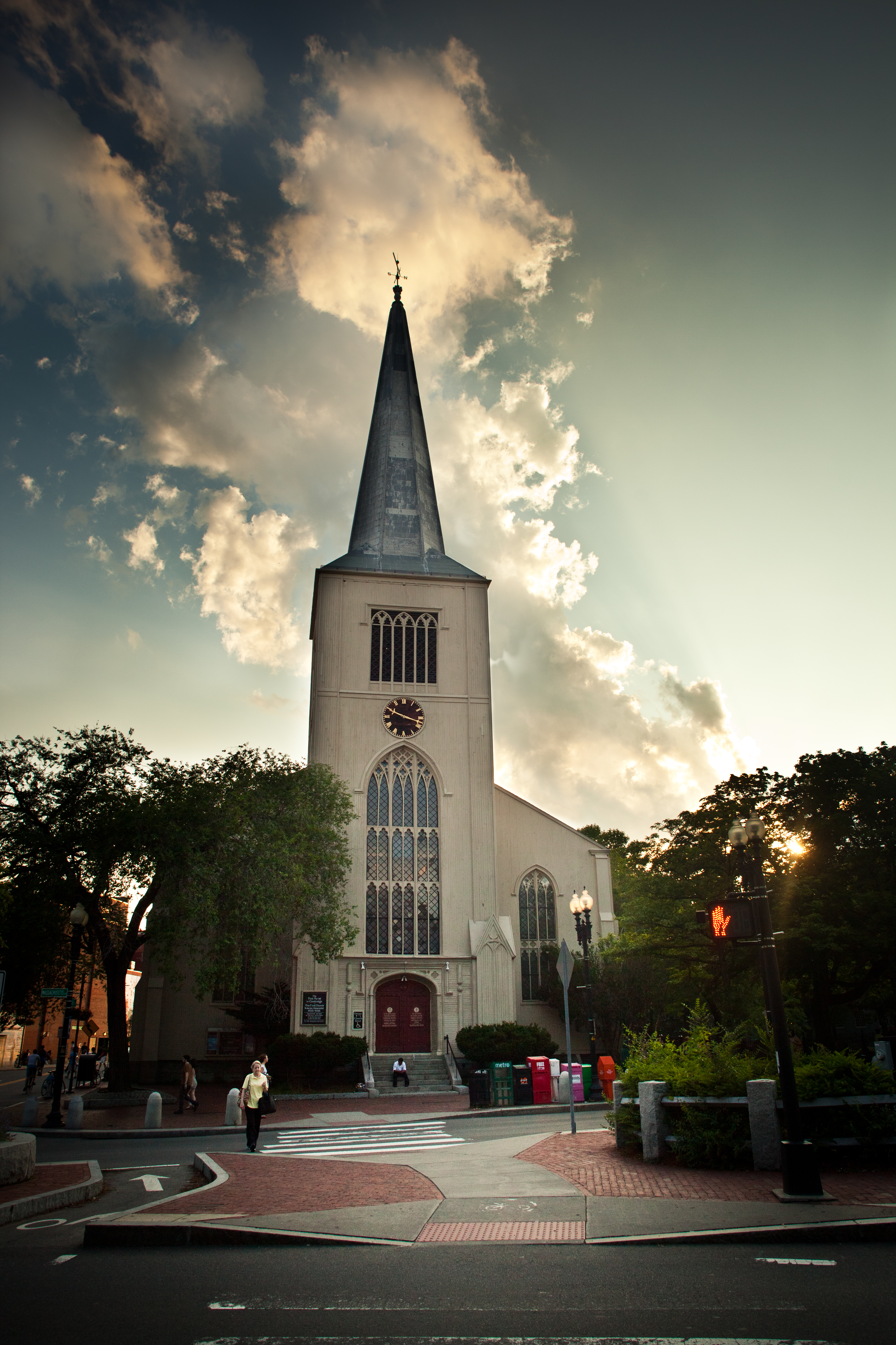 First Parish in Cambridge